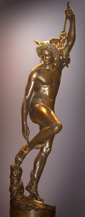 Hermes binding his sandals after having killed Argos. Bronze cast by Soyer and Ingé in 1834.